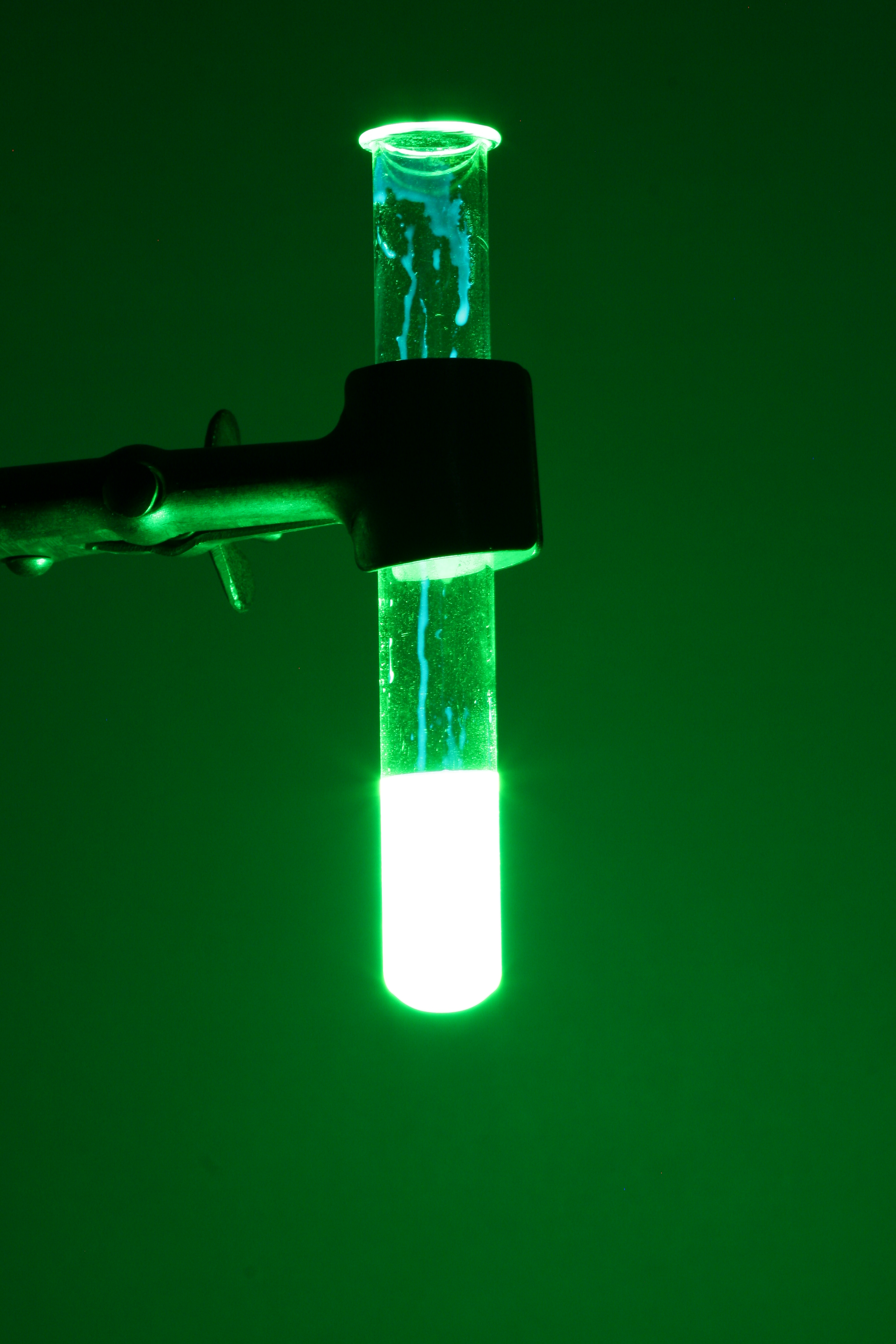 An example of the chemiluminescence found in a light stick: cyalume + H2O2 + dye → phenol + 2CO2 + dye[◊]